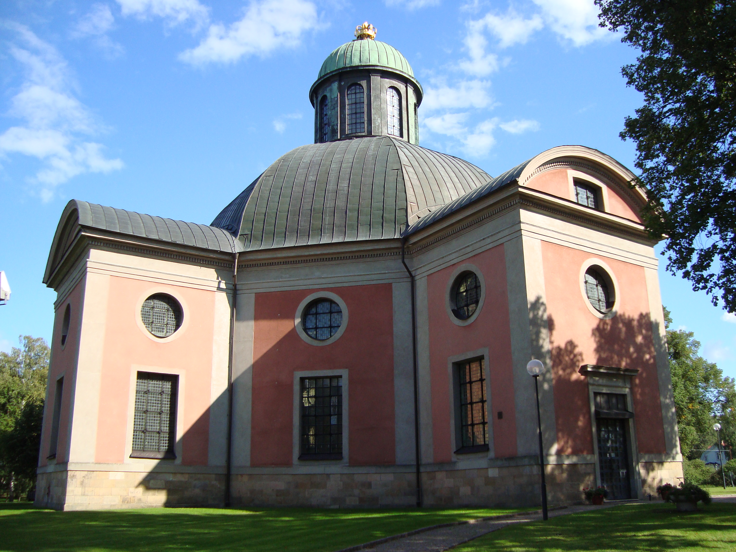 Church of Kung Karl (King Charles XI), Kungsör , Sweden